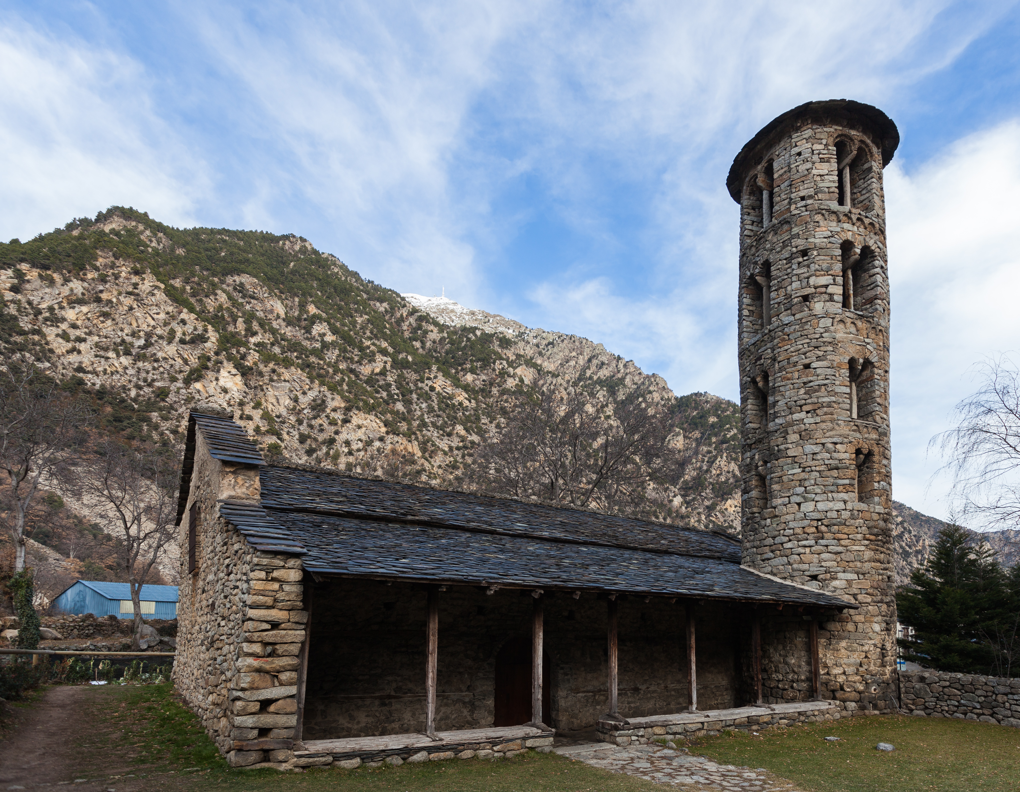 Church of St Coloma of Andorra, Santa Coloma, Andorra